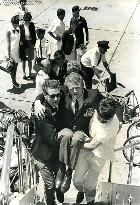 Australian Paralympian Jeff Simmonds is carried onto the plane by a team manager and member of the ground staff at the start of the journey to the 1968 Tel Aviv summer Paralympics